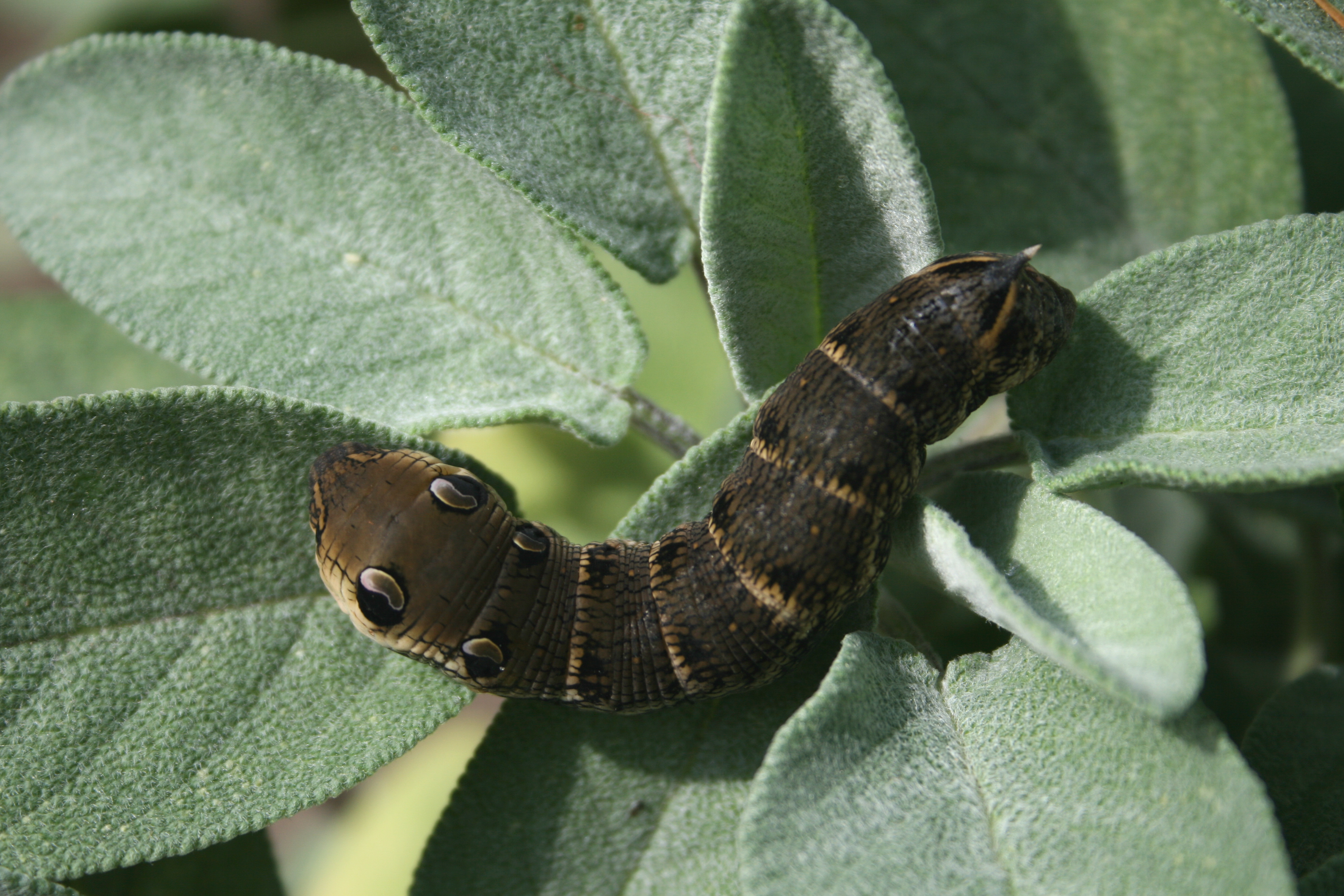 Elephant Hawk-moth (Deilephila elpenor) caterpillar on Salvia officinalis leaves - Havré (Belgium).